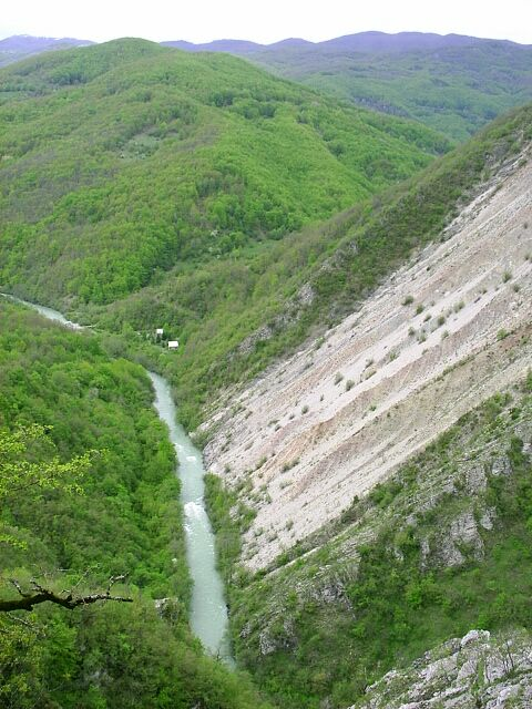 Upper section of the Neretva River, Bosnia and Herzegovina